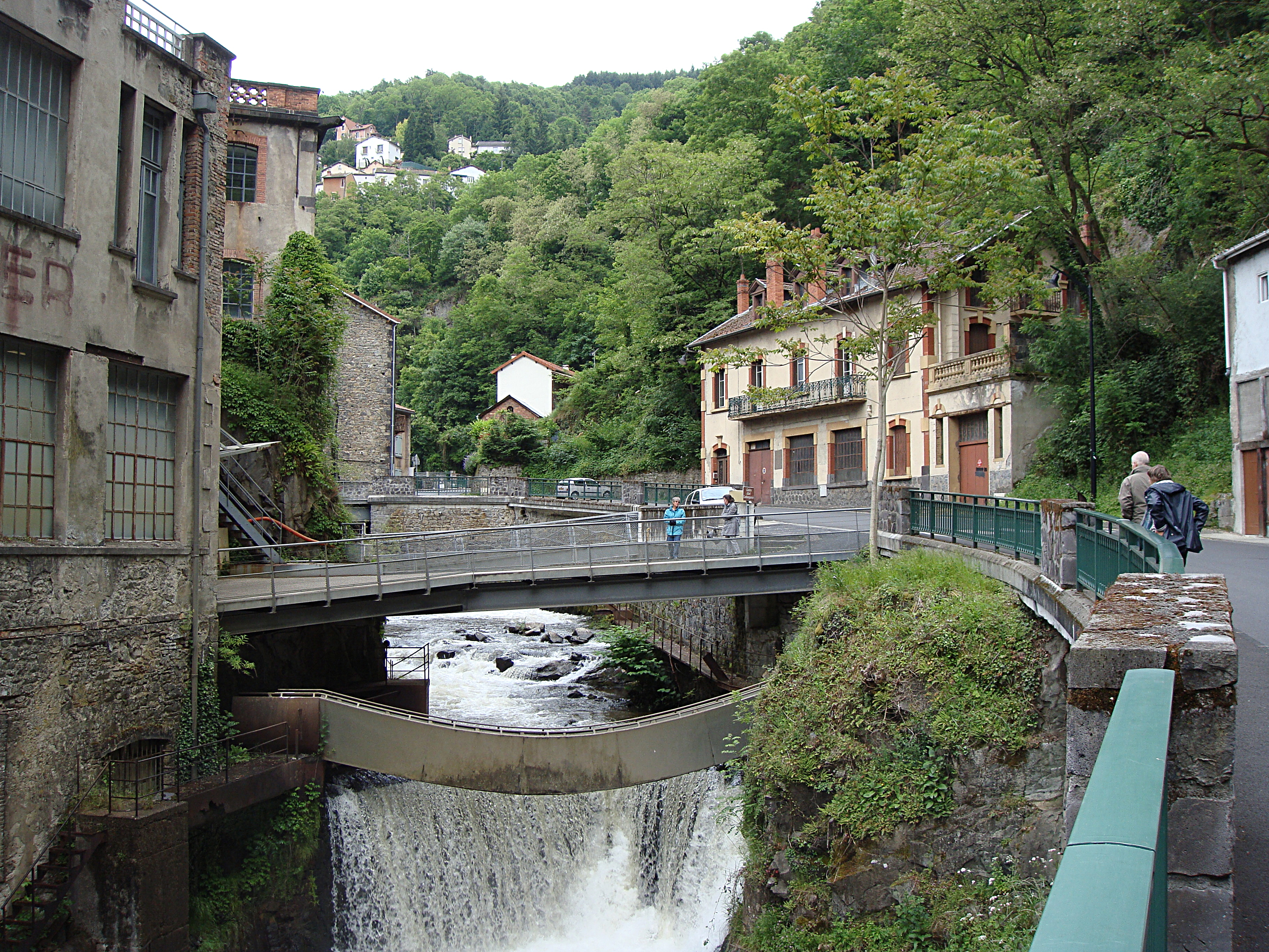 Creux de l'Enfer (Thiers, Puy-de-Dôme, France), May 2014.